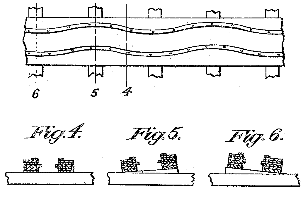 Modification of public domain patent image of a roller coaster track element